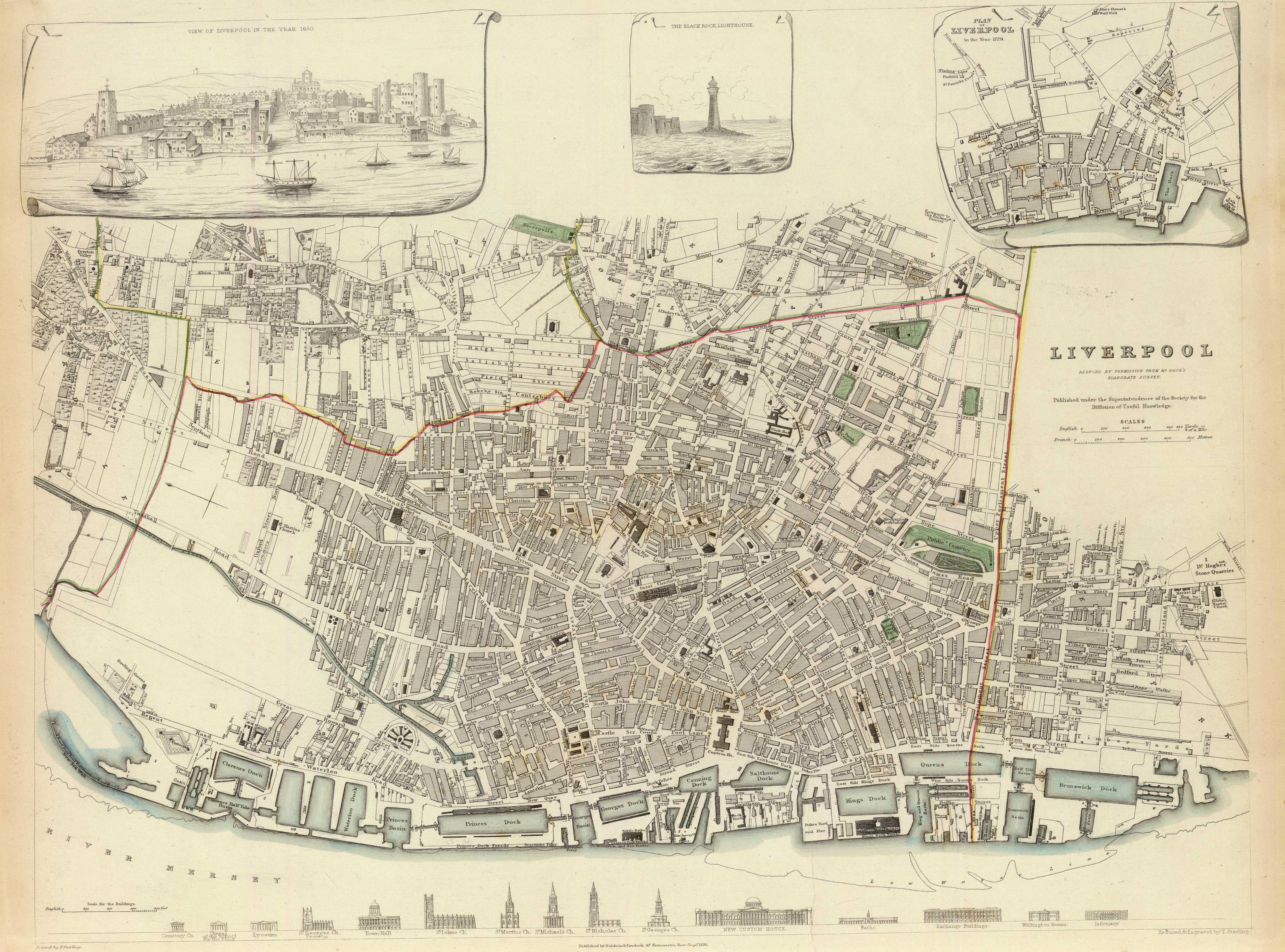 Liverpool England 1836